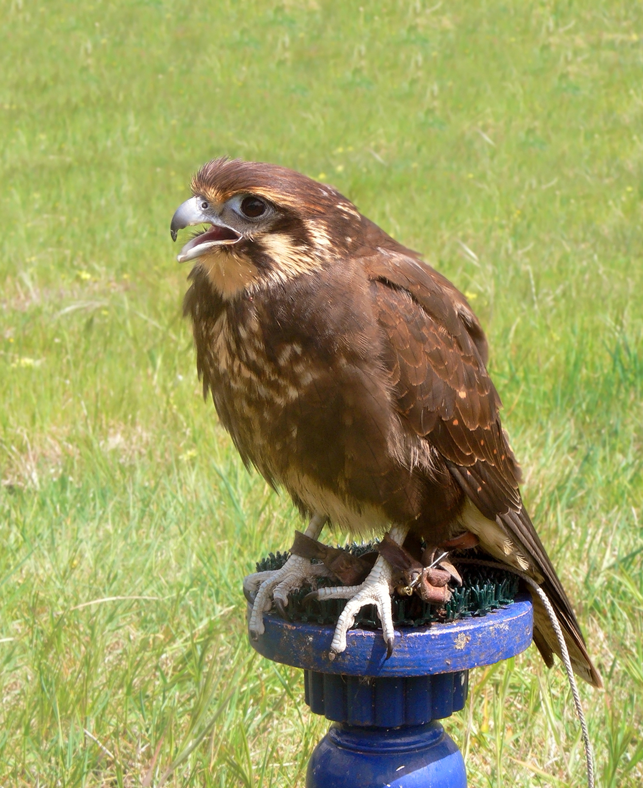 A Brown Falcon Falco berigora, taken at a traveling raptor flight display in south-east Australia.